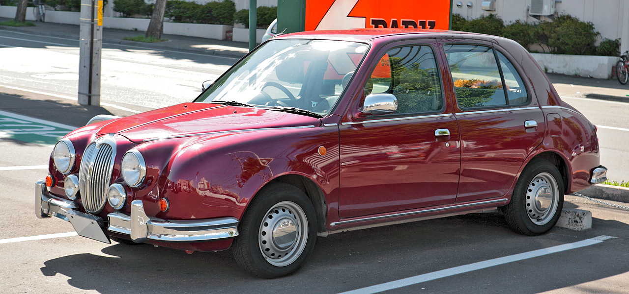 Mitsuoka Viewt ( K11 )